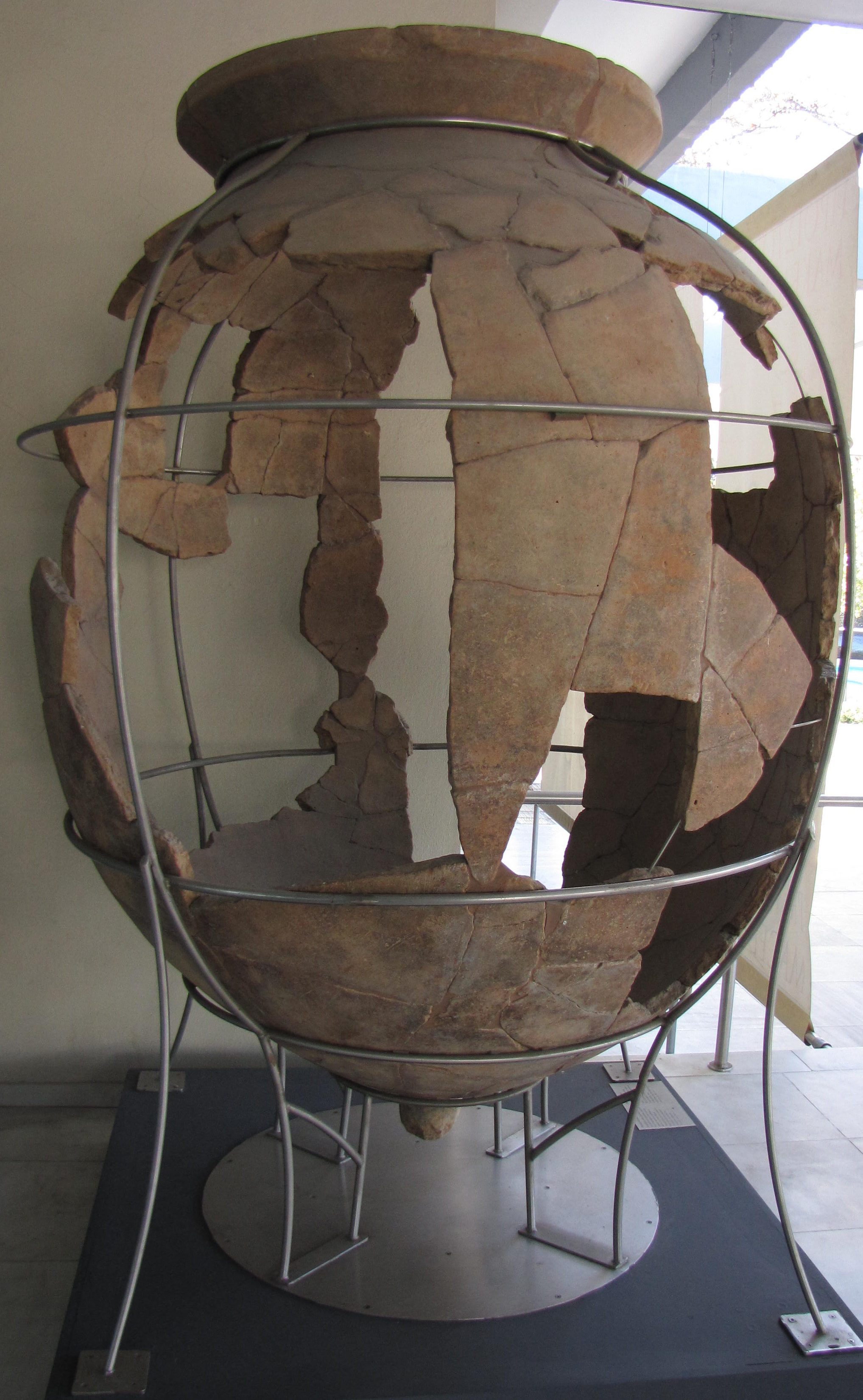 Partly reconstructed Pithos from komboloi